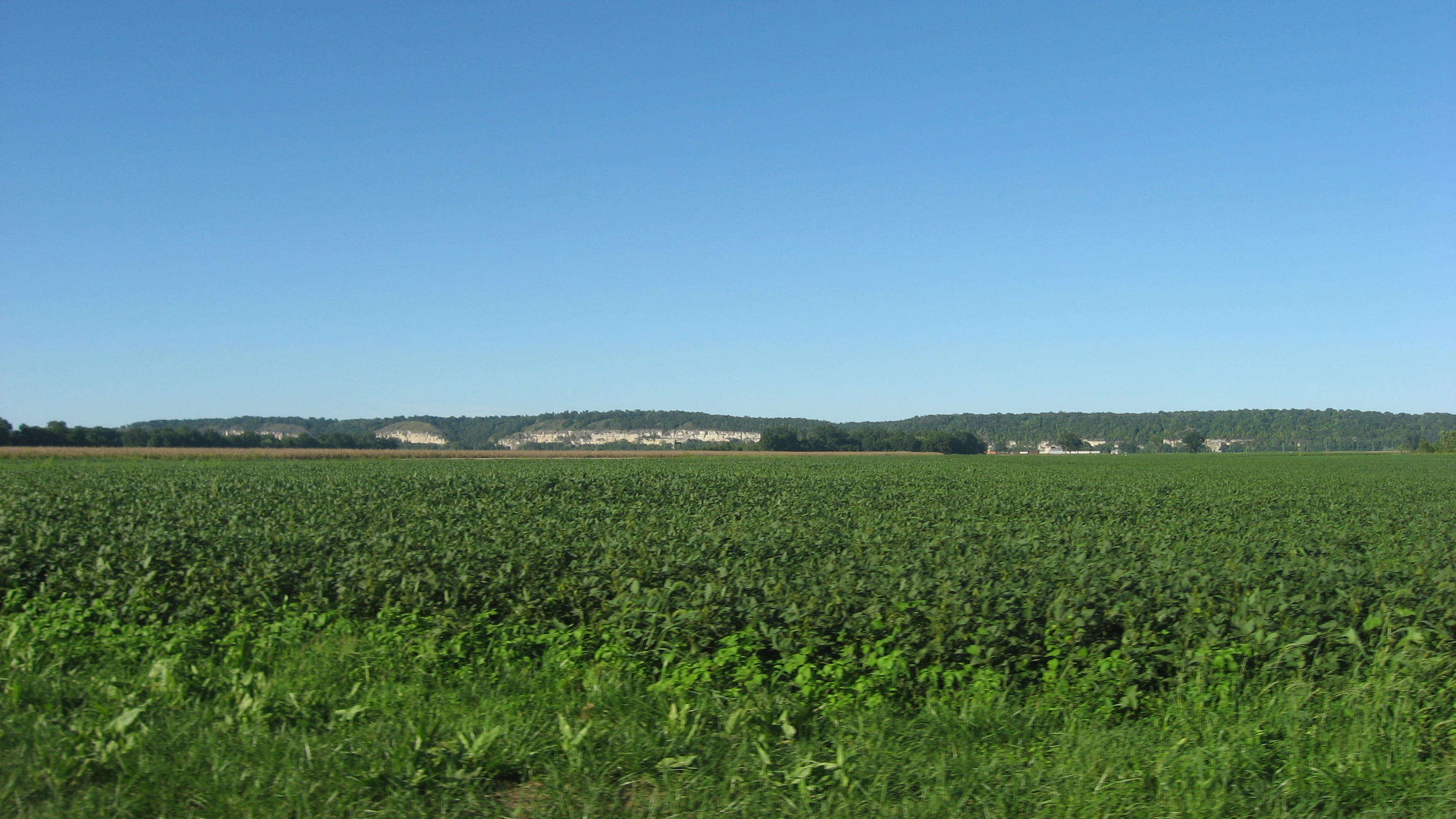 Overview of fields in the French Colonial Historic District, located in the American Bottom slightly east of Fort de Chartres in the western extreme of Prairie du Rocher Precinct, Randolph County, Illinois, United States. The district comprises roads, archaeological sites, and other features associated with Fort de Chartres and related early French settlement in the region; it is listed on the National Register of Historic Places. Picture is taken from Illinois Route 155.